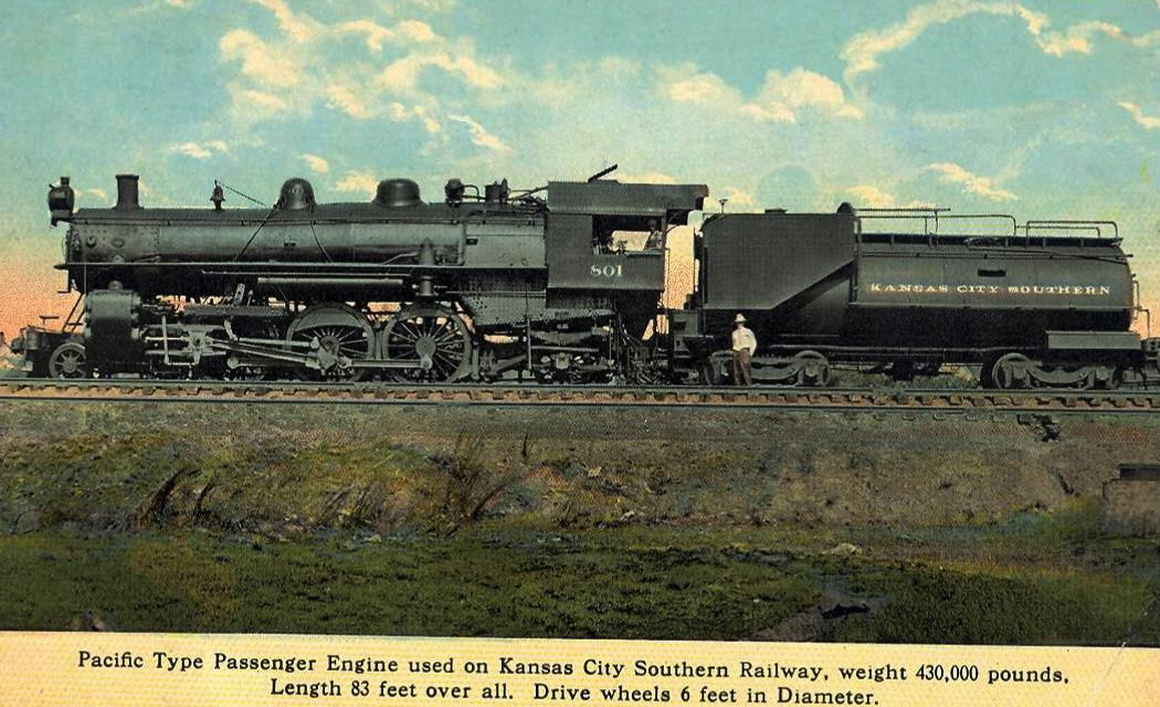 Postcard photo of a 4-6-2 Pacific type passenger locomotive of the Kansas City Southern Railway. The card was sent as a "thank you" from the railway for the purchase of a ticket. What is of interest in the message on the back is that the railway describes the locomotive as being oil burning--not a coal burner.